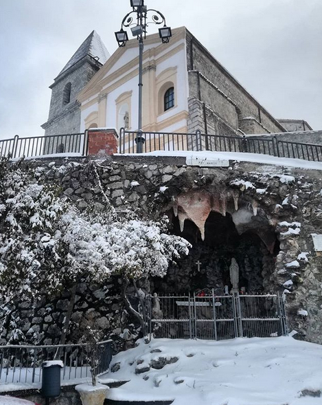 the façade with the statue of Virgin Mary dominates a square that serves as a roof to the cave below.